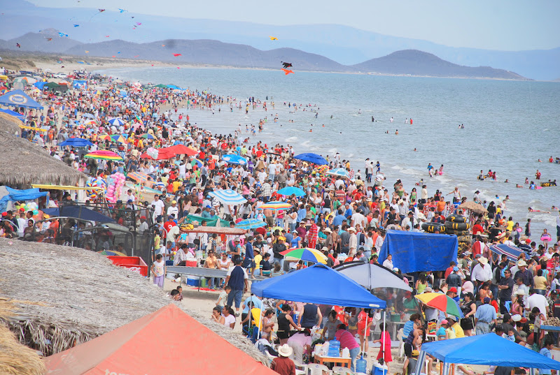 hermosa playa sonorense